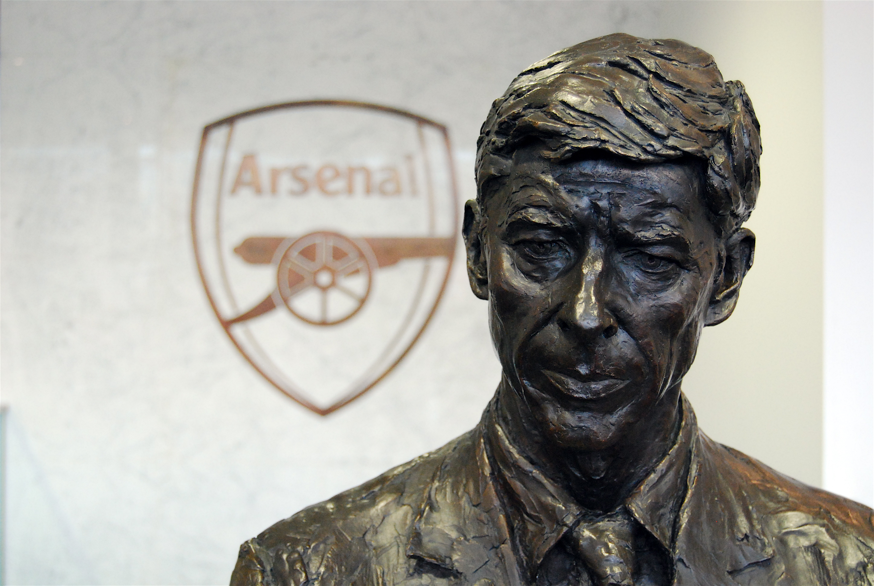 Statue of Arsène Wenger at Fairmount-Southside Historic District